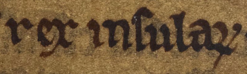 An excerpt from folio 40r of British Library MS Cotton Julius A VII (the Chronicle of Mann). The excerpt reads in Latin "rex insularum", which translates into English as "King of the Isles". The title is that of Guðrøðr Óláfsson, King of Dublin and the Isles (died 1187).